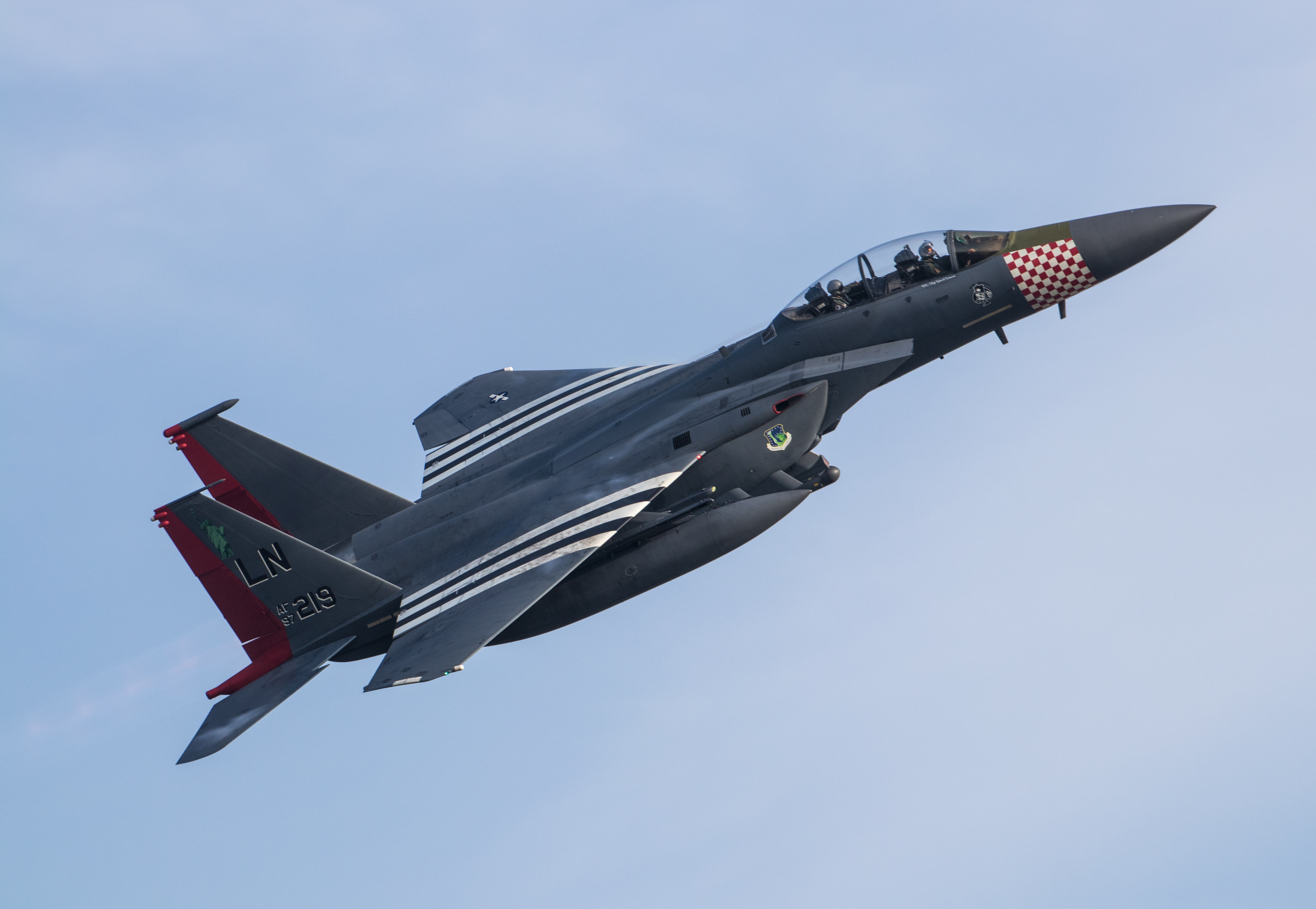 RAF Lakenheath, Suffolk